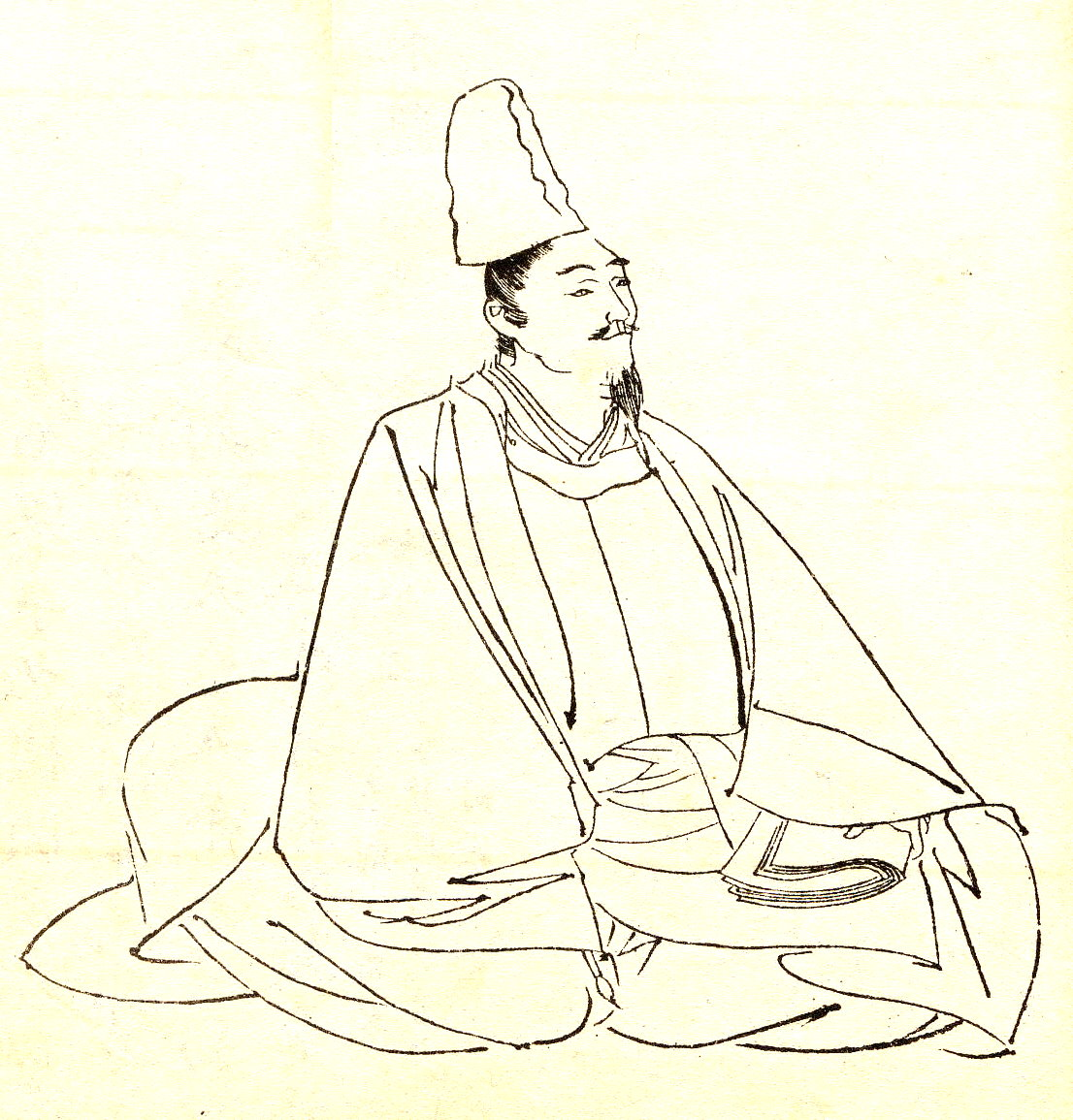 Sugawara no Fumitoki（菅原文時）was a literary man and a politician in the middle of the Heian Period.